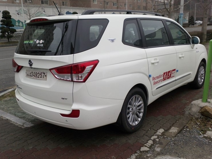 SsangYong Korando Turismo